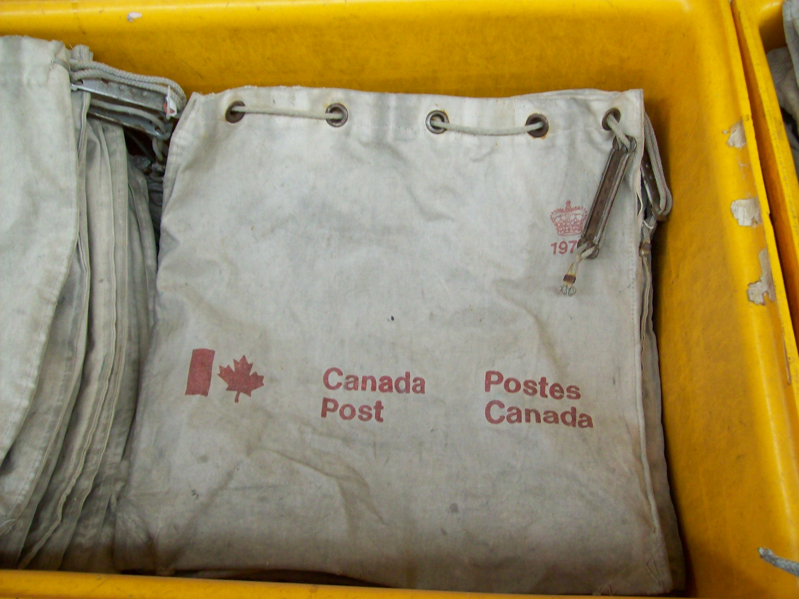 Post Offices in or around London Ontario